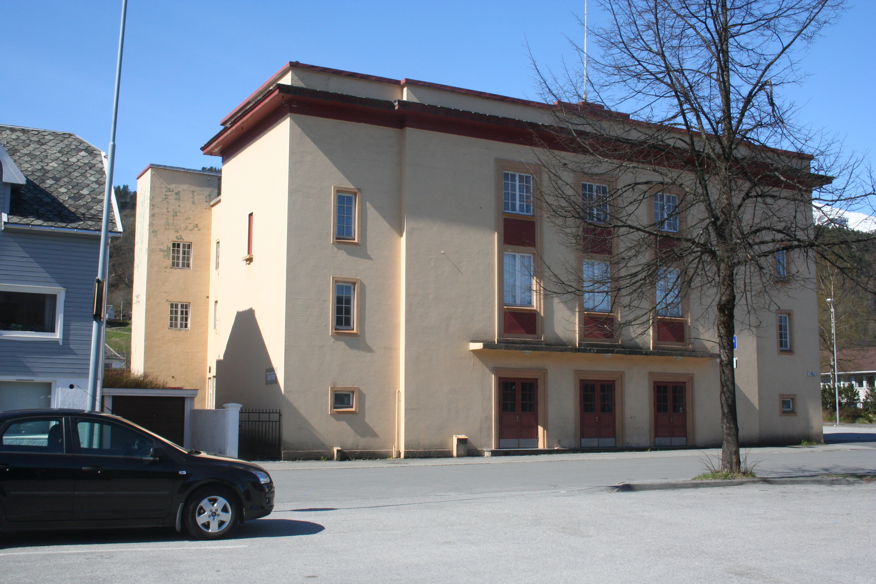 Nye Folkets Hus, building from 1931 in Sauda, Norway. Arch. Gustav Helland